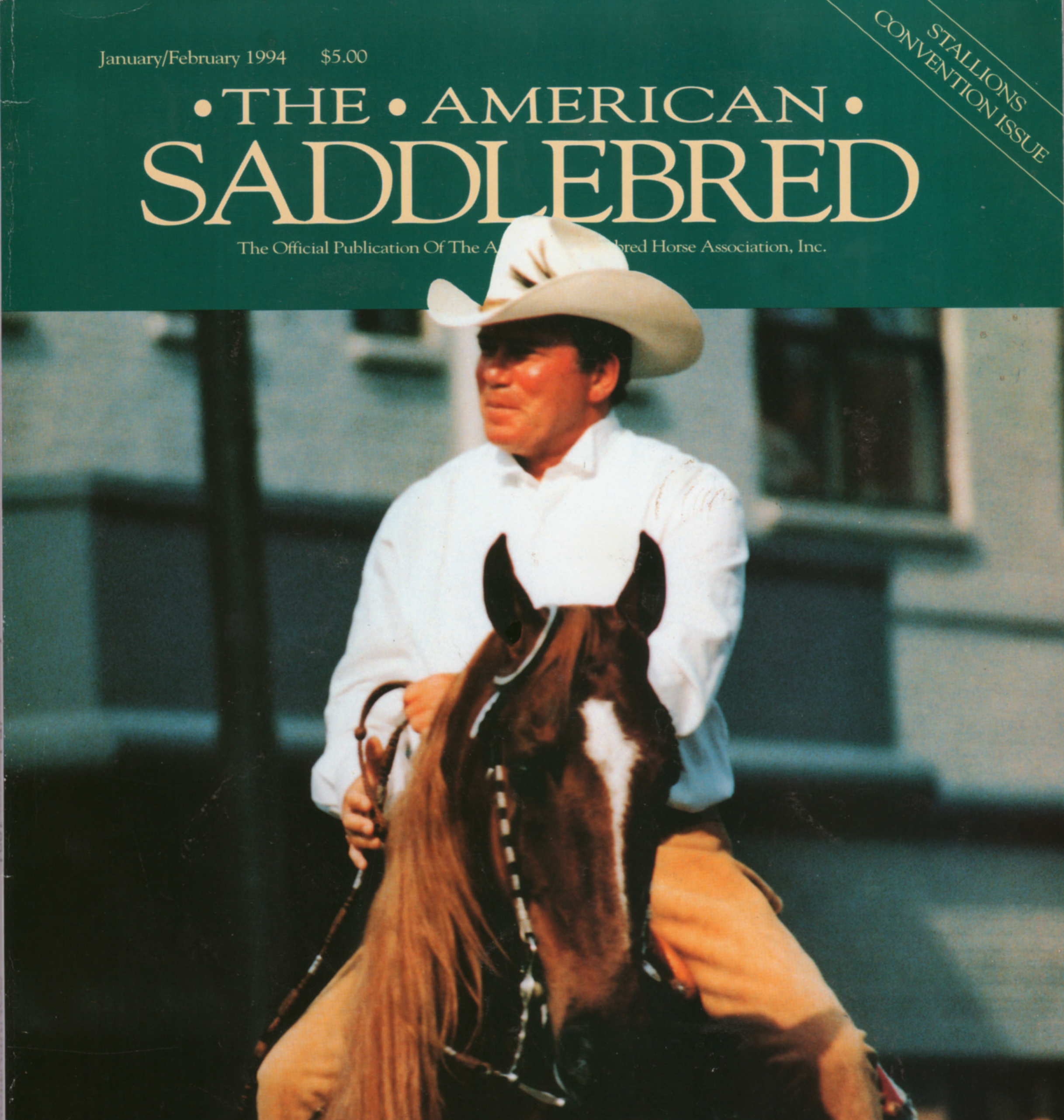 Cover of January/February 1994 issue of American Saddlebred magazine (cropped)